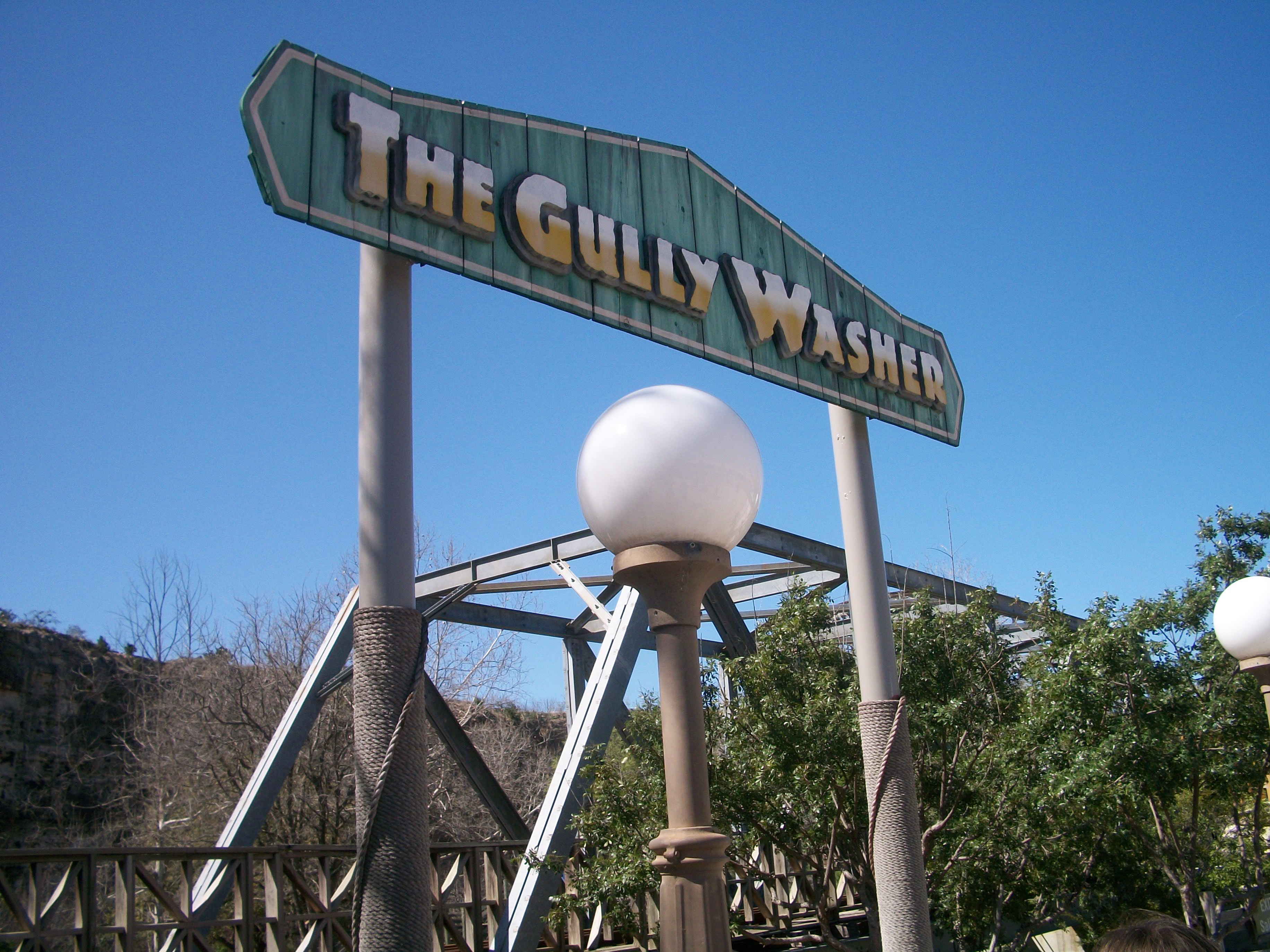 The Gully Washer entrance at Six Flags Fiesta Texas that opened in 1992, when Fiesta Texas was first built! Picture taken March 3, 2012.